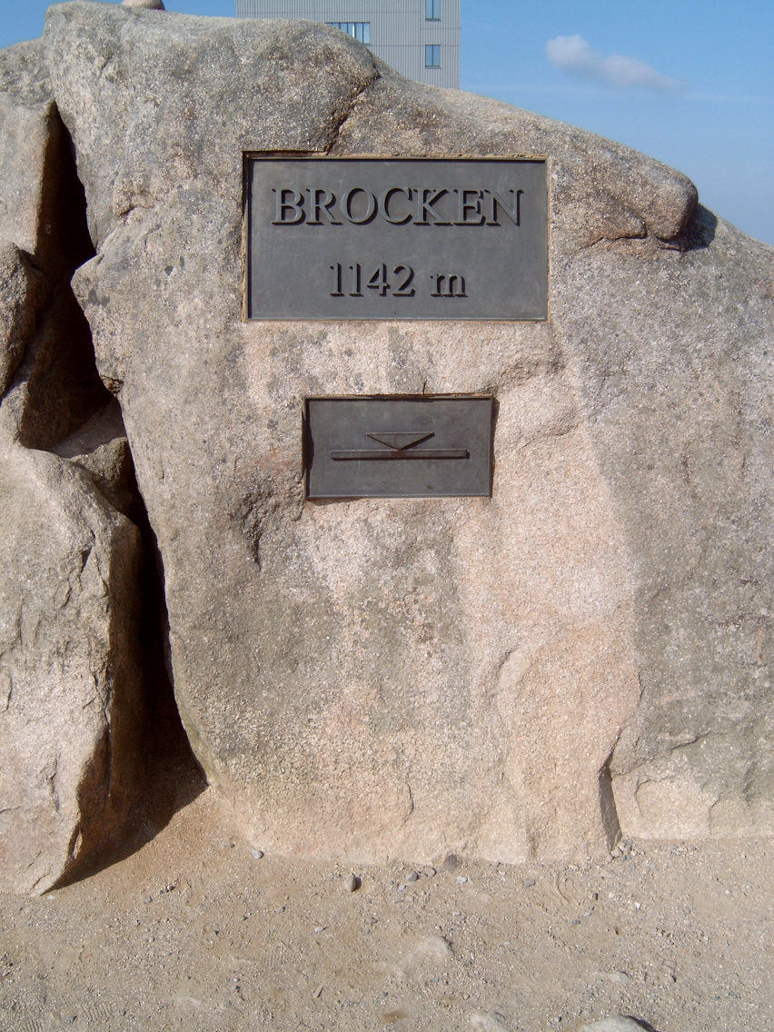 Mountain "Brocken" in the "Harz", peak stone. The altitude on higher tablet relates to the line on lower tablet. This line is c. 1 metre above the ground here.